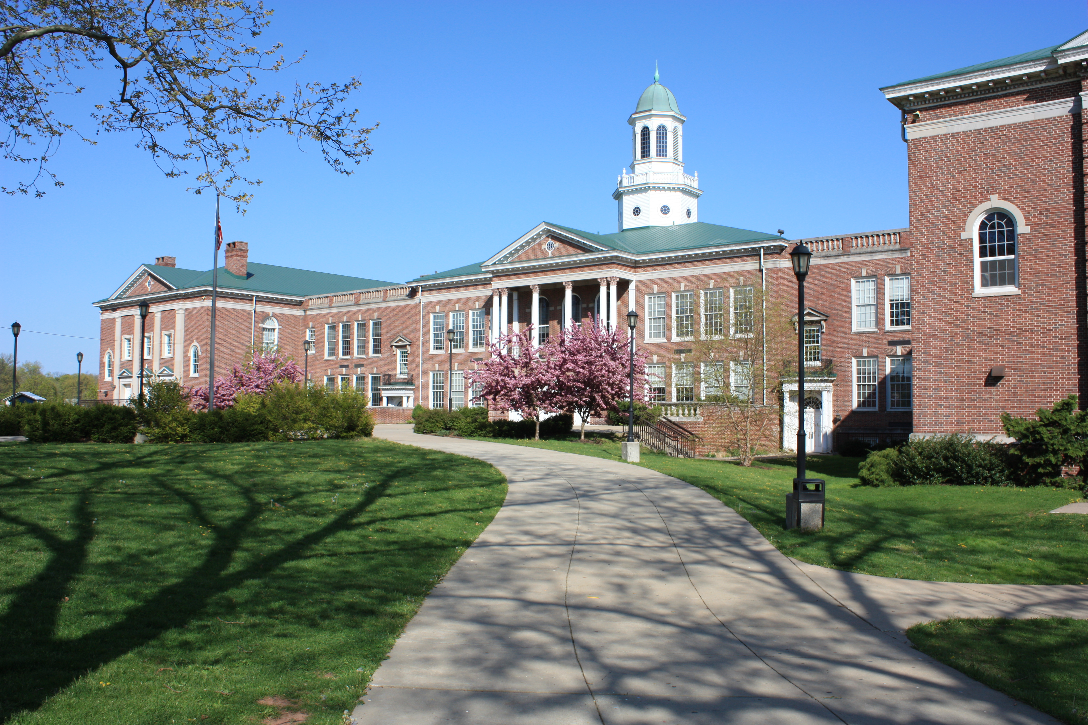 One of the true classic school buildings in Pennsylvania